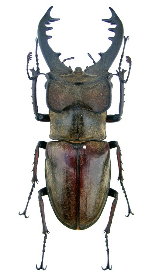 Lucanus maculifemoratus